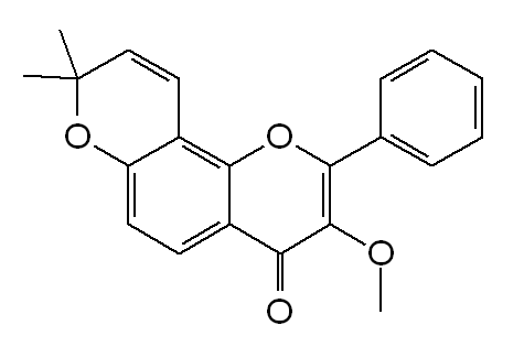 chemical structure of karanjachromene